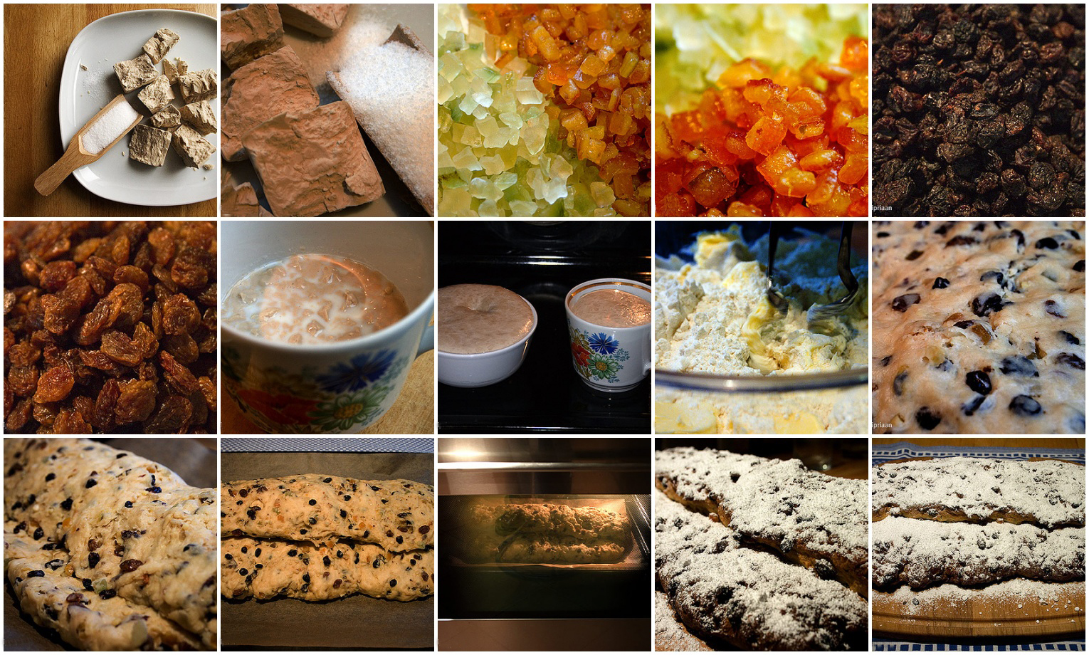 Making of "Dresdner Stollen"